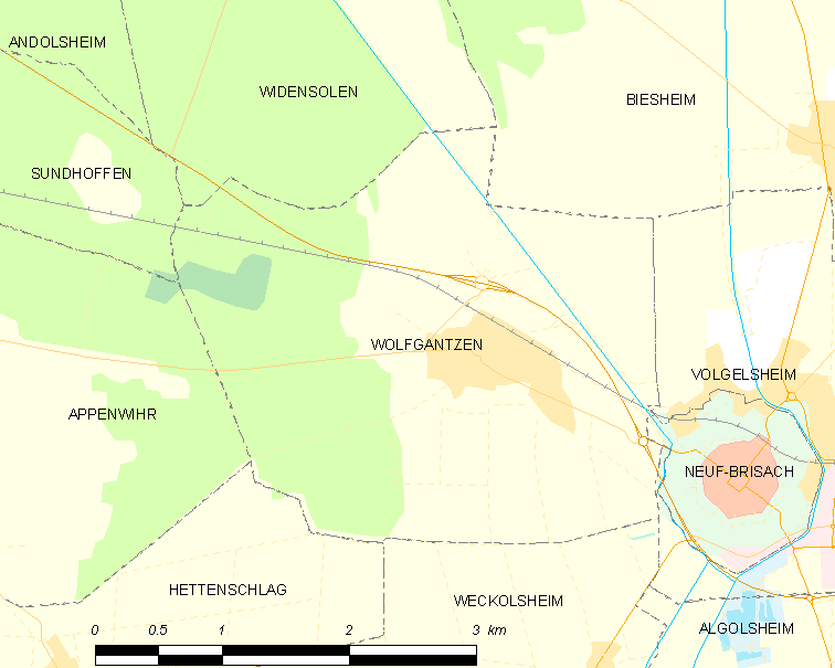 Map of French municipality